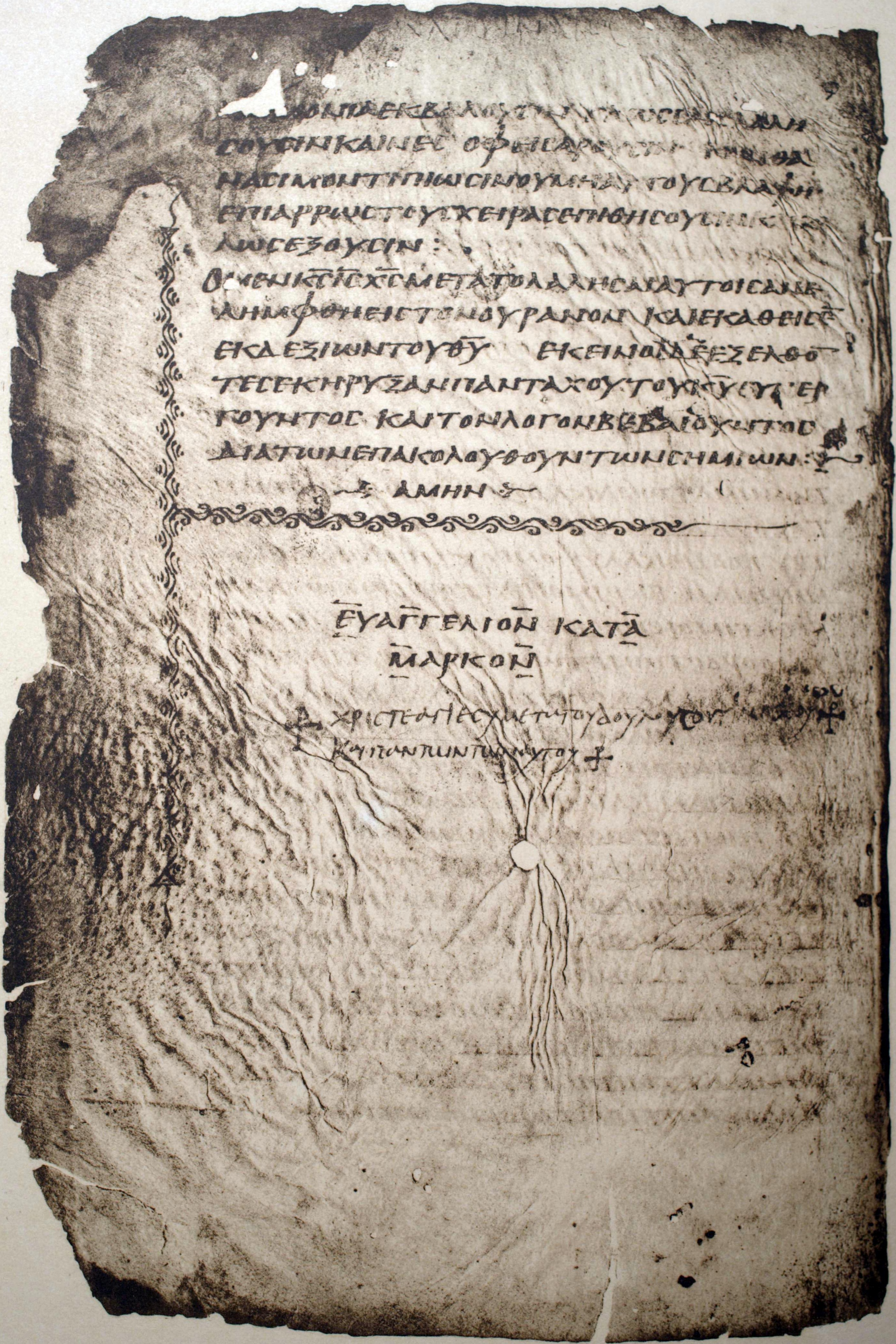 the last page of the codex, ending of Mark, with colophon and subscription (in semi-cursive hand)